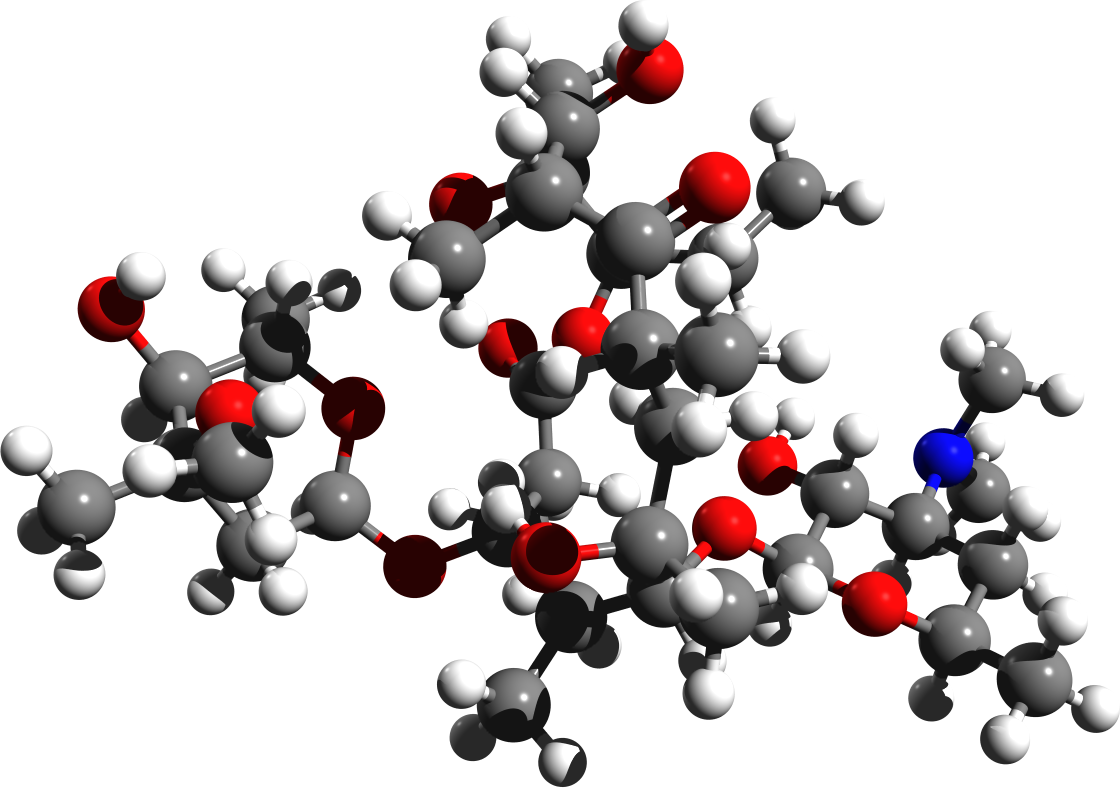 Erythromycin structure